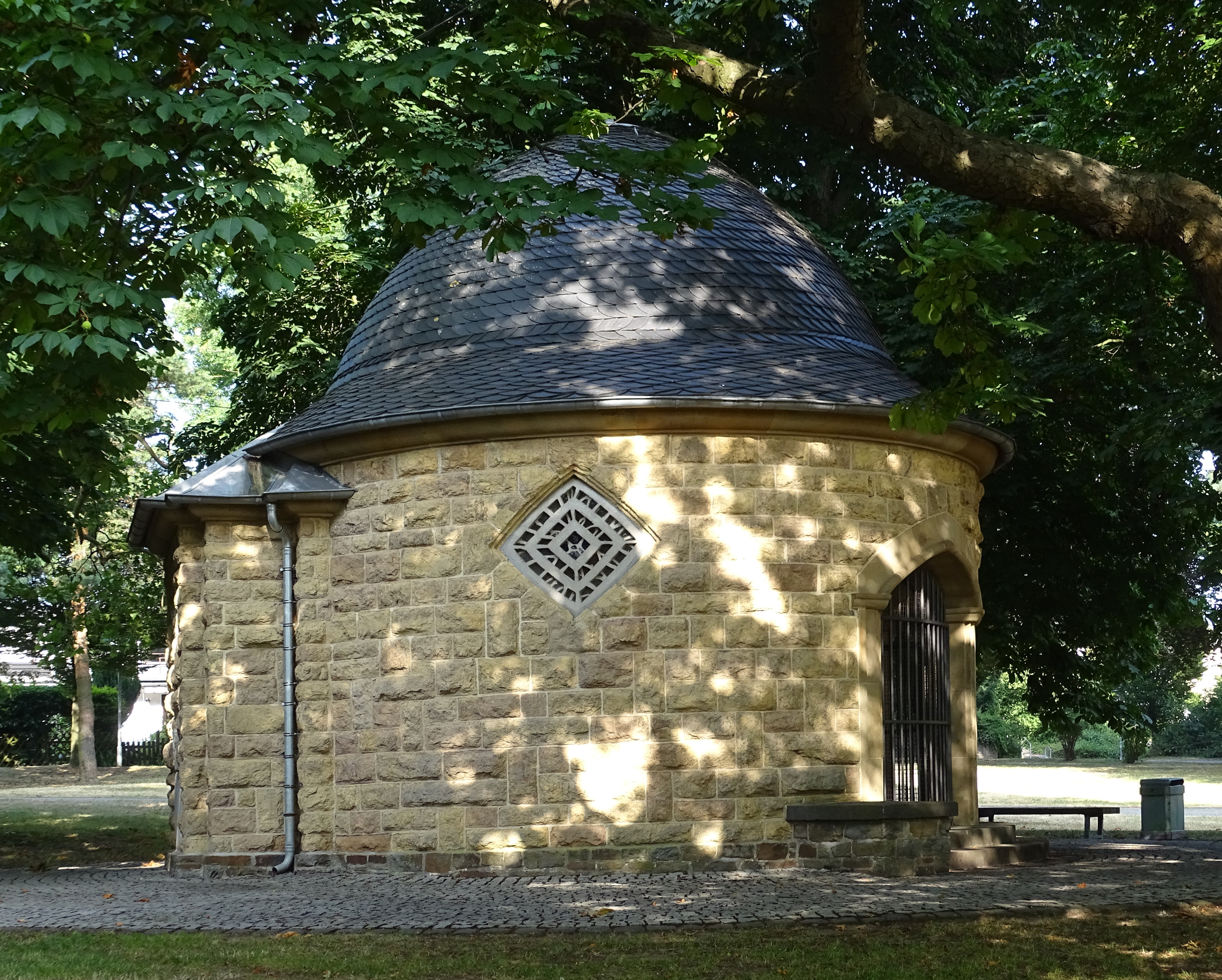 Stephanus Chapel in Meckenheim (Rhineland), Dechant-Kreiten-Straße, with entrance.